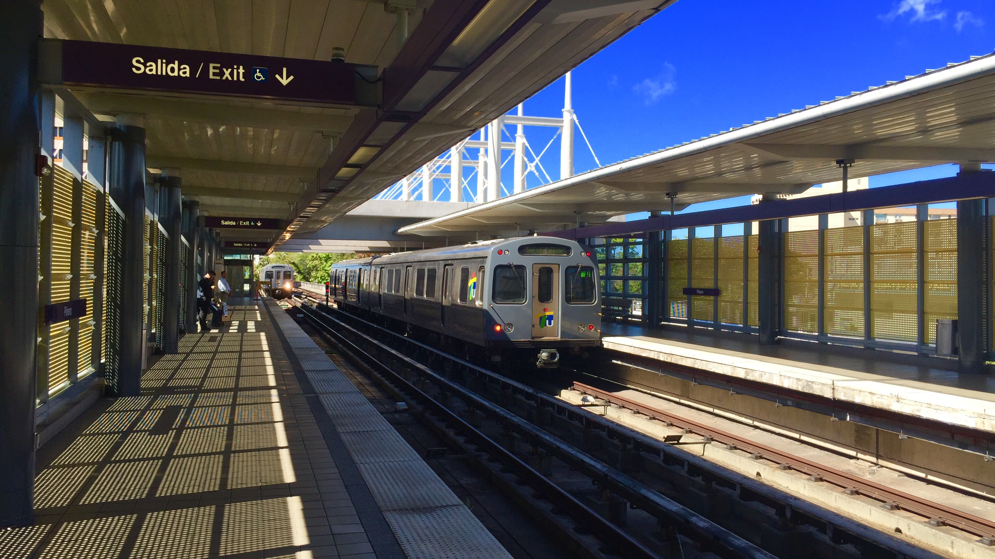 Tren Urbano Piñero station in Hato Rey Sur